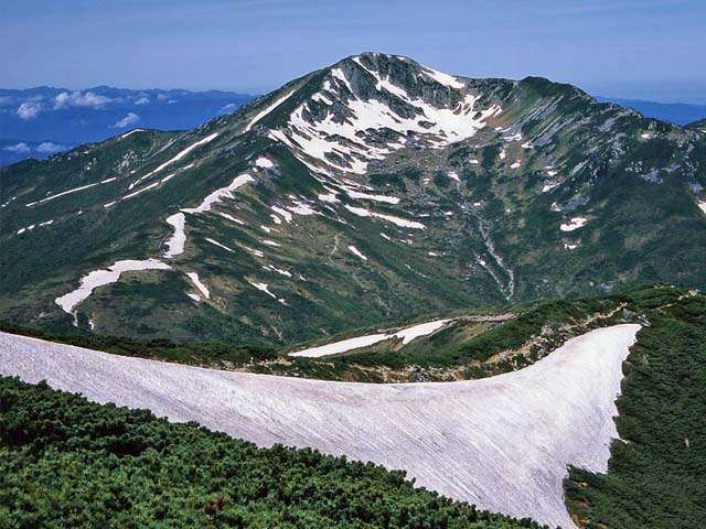 Kurobegorodake as seen from the east in Hida Mountains, Japan. Taken from the summit of Mitsumatarengedake. 黒部五郎岳 = Kurobegorodake = Mount Kurobegoro 三俣蓮華岳 = Mitsumatarengedake = Mount Mitsumatarenge